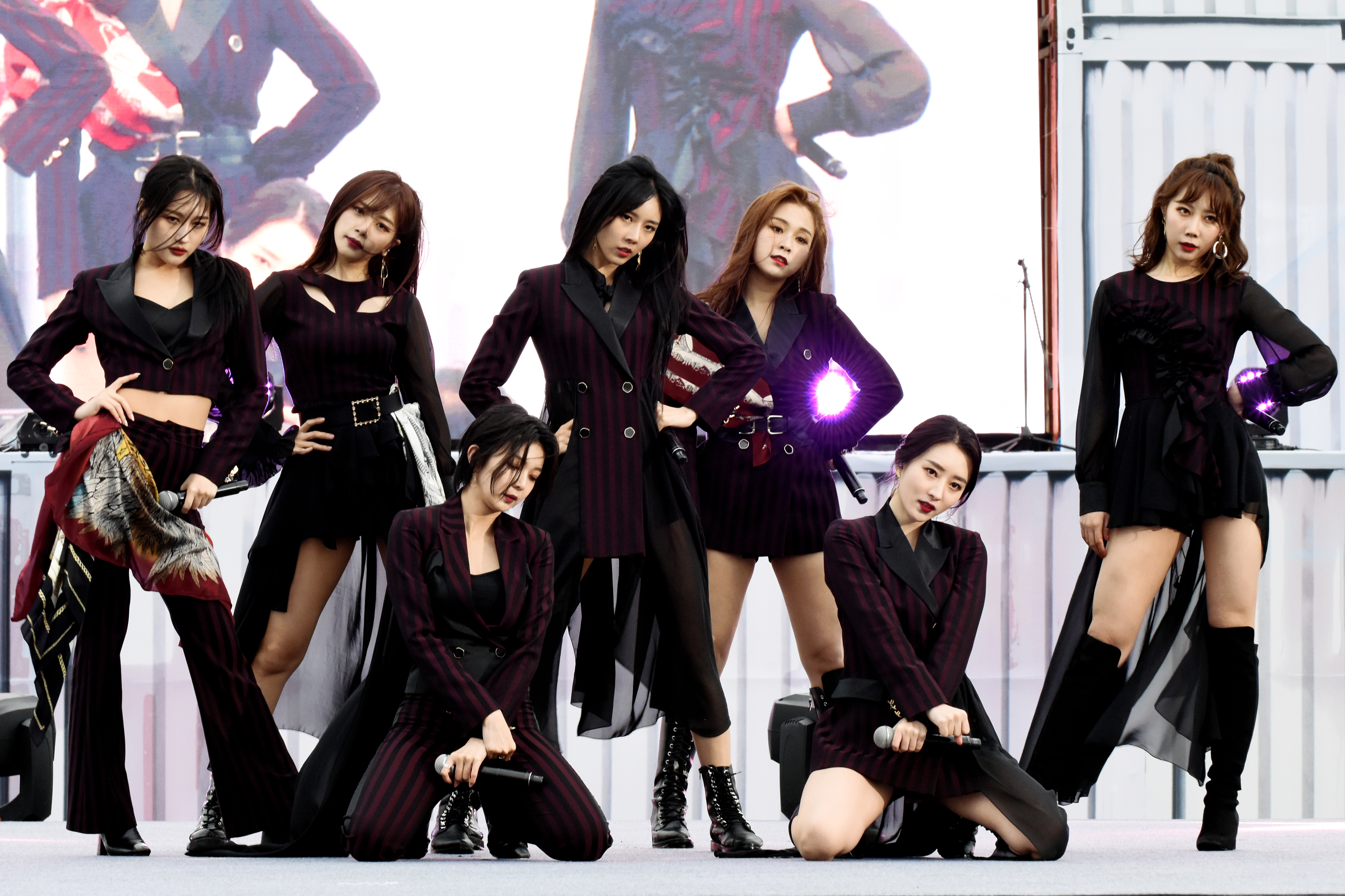 Dreamcatcher performing at the Songdo Fireworks Festival in Incheon on April 26, 2019.